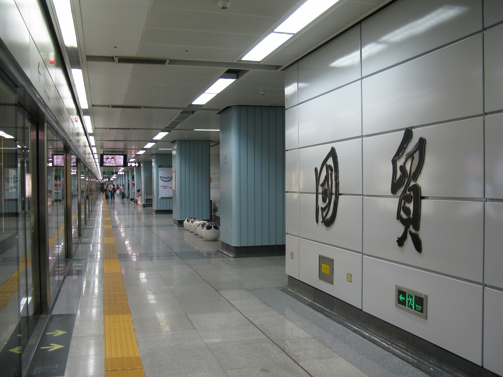 Line 1 Platform (Level B3) of Guo Mao Station, Shenzhen Metro, view towards Lao Jie Station